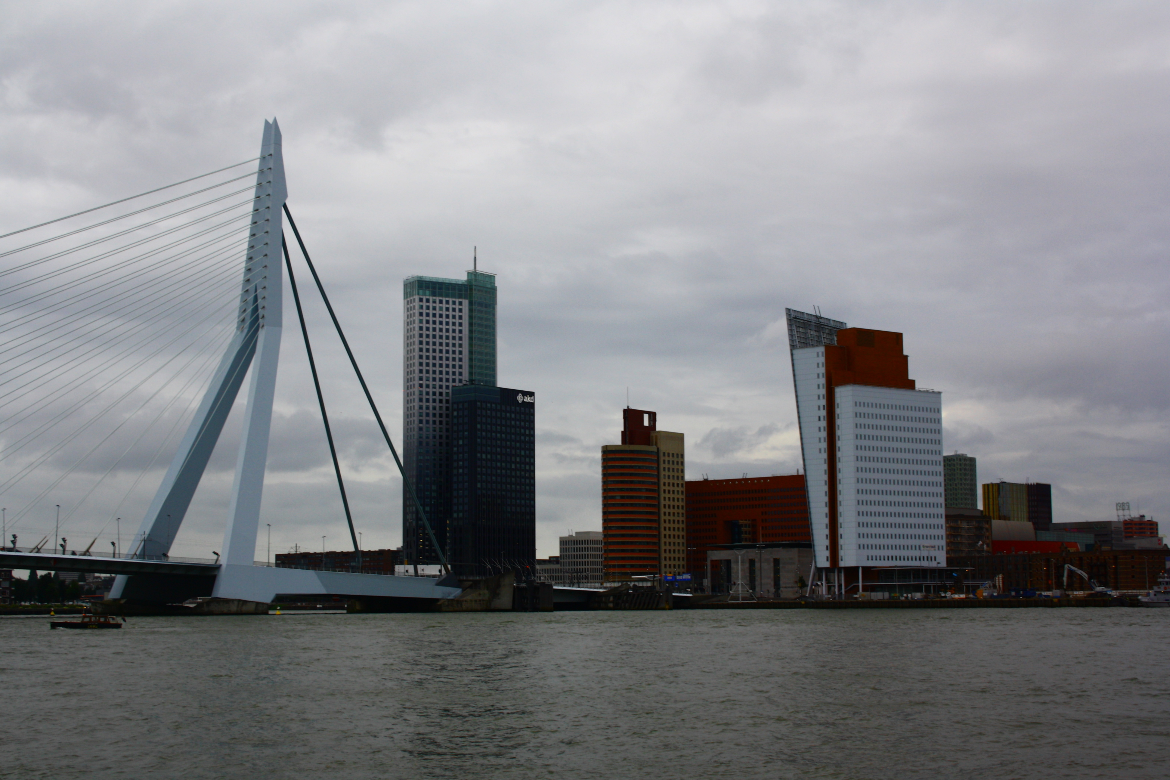 The Erasmus bridge in Rotterdam with some skyscrapers